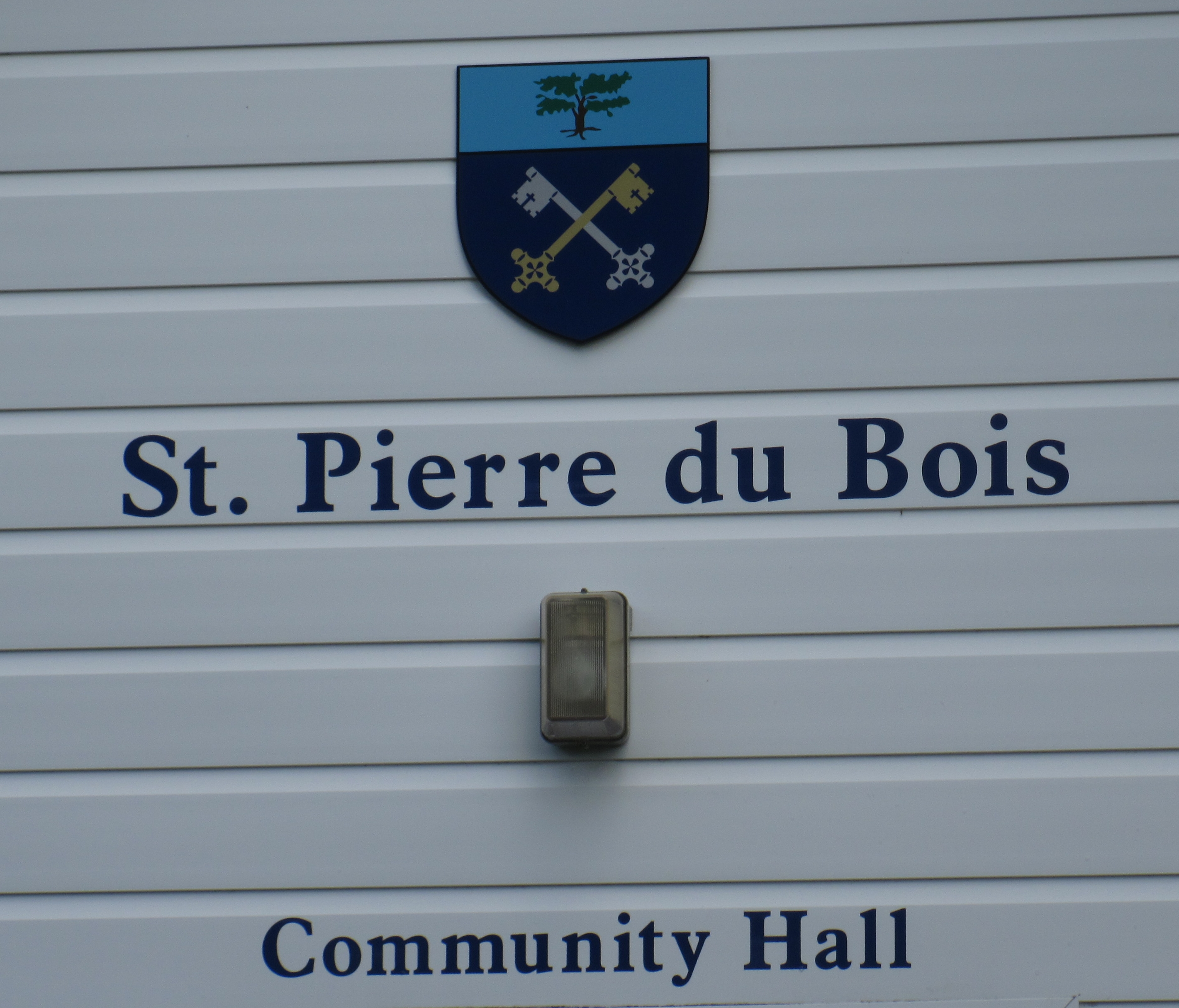 St Peter's, Guernsey Nrf: Saint Pierre (Guernési)